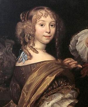 Amalia of Nassau-Dietz